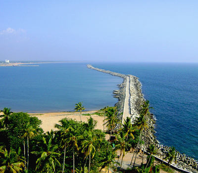 View of Kollam Port - Kollam(Quilon) was the most important port city in India once. Other information Created just for making it as the image skyline of Kollam Port Wiki Page.